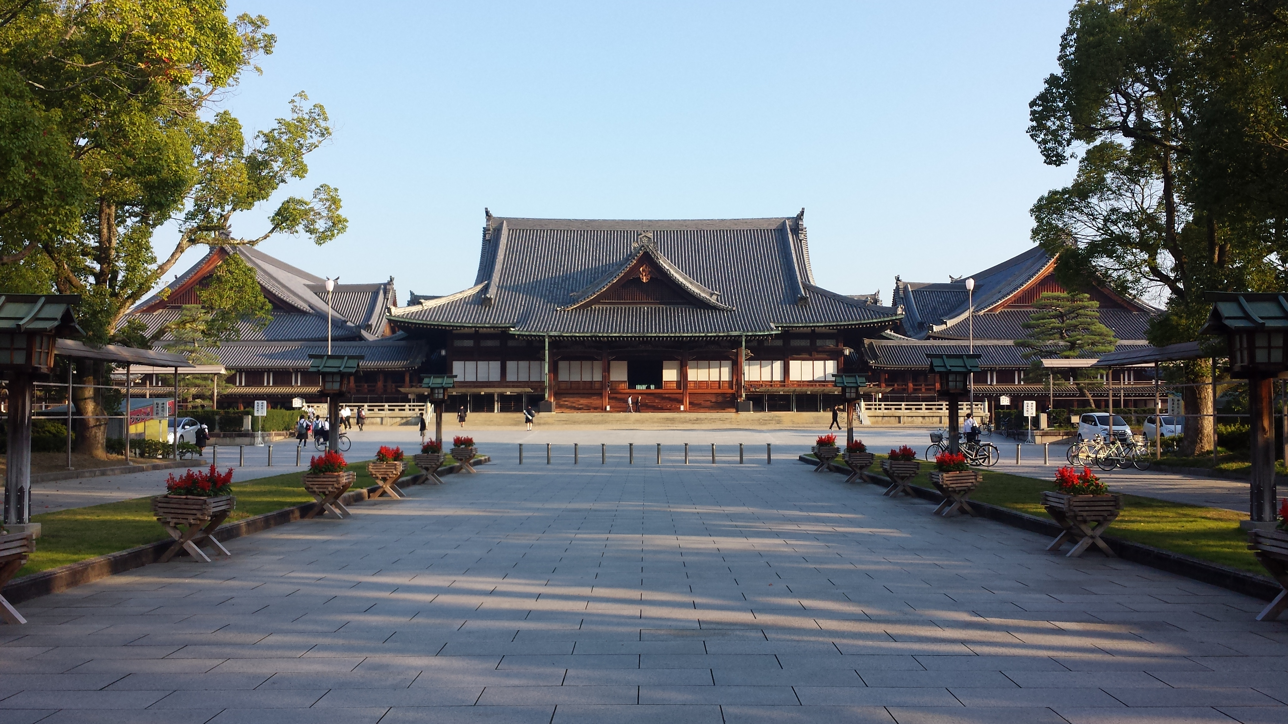 Picture of Tenrikyo Church Headquarters from the south entrance.